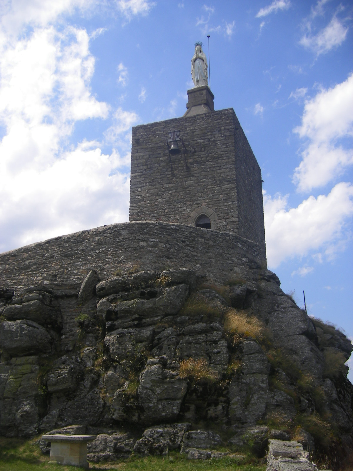 Luc - Castle